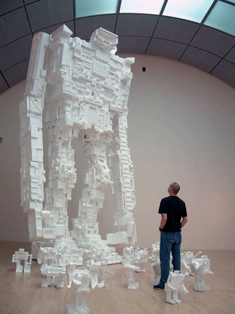 Artist Michael Salter contemplates his giant Styrobot.22 foot tall site-specific installation created for the San Jose Museum of Art exhibition, Robots: Evolution of a Cultural Icon; April 12, 2008 through October 19, 2008.